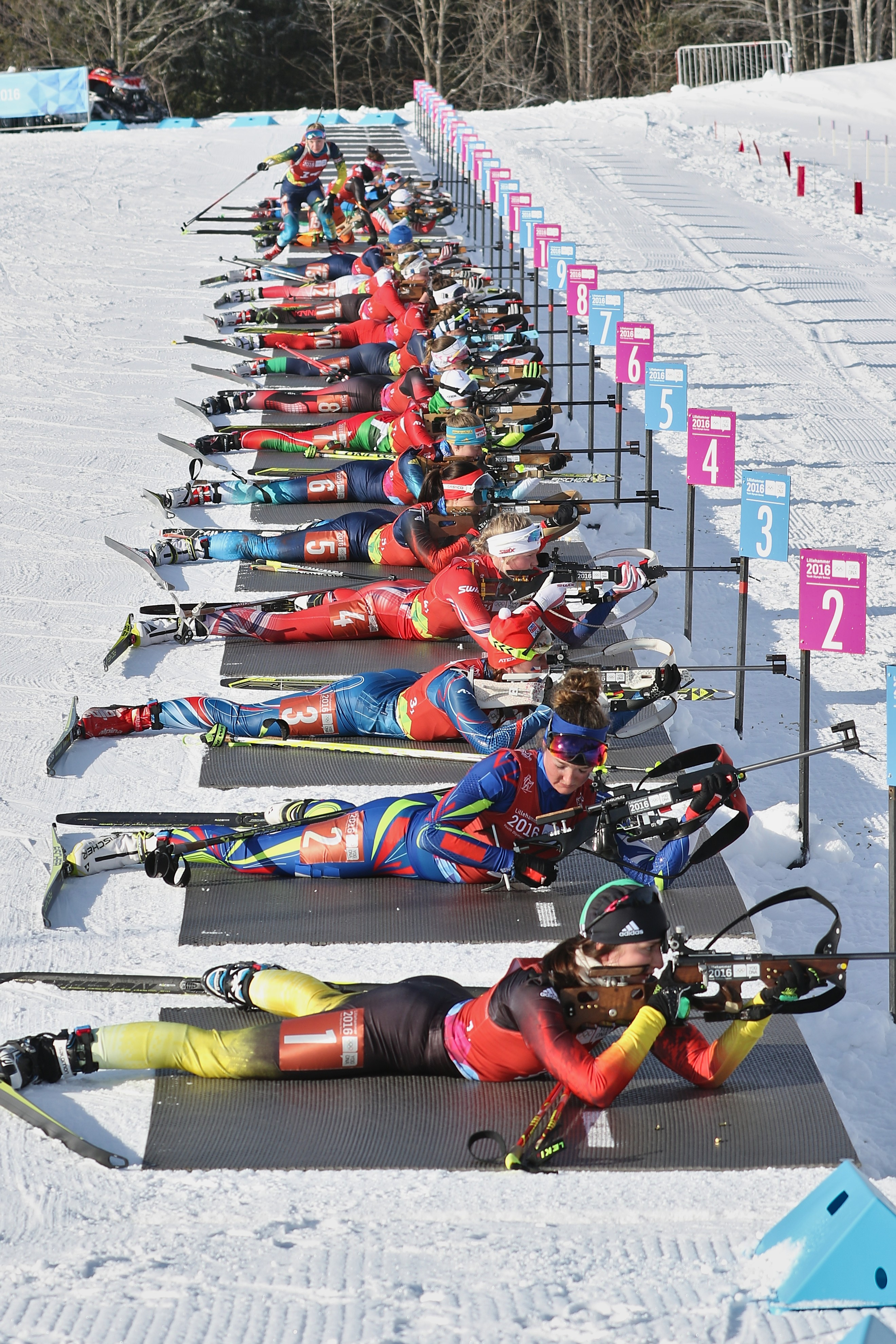 Lillehammer 2016 Biathlon mixed relay 1- FRUEHWIRT Juliane (GER) 2-JEANMONNOT LAURENT Lou (FRA) 3-SUCHA Petra (CZE) 4-OEYGARD Marit (NOR) 5-PONEDELKO Ekaterina (RUS) 6-DMYTRENKO Khrystyna (UKR) 7-IYEROPES Darya (BLR) 8-BERGER Marion (AUT) 9-COMOLA Samuela (ITA) 10-BARMETTLER Flavia (SUI) 11-BANSER Tekarra (CAN) 12-TOMASZEWSKA Natalia (POL) 13-LEVINS Chloe (USA) 14-OLSSON Moa (SWE) 15-HAIDELMEIEROVA Veronika (SVK) 16-ZDRAVKOVA Maria (BUL) 17-KERANEN Jenni (FIN) 18-VIILUKAS Anneliis (EST)